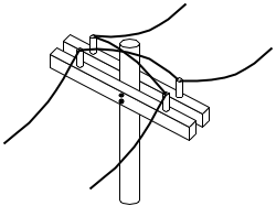 A line drawing illustrating the transposition of wires on top of a utility pole.